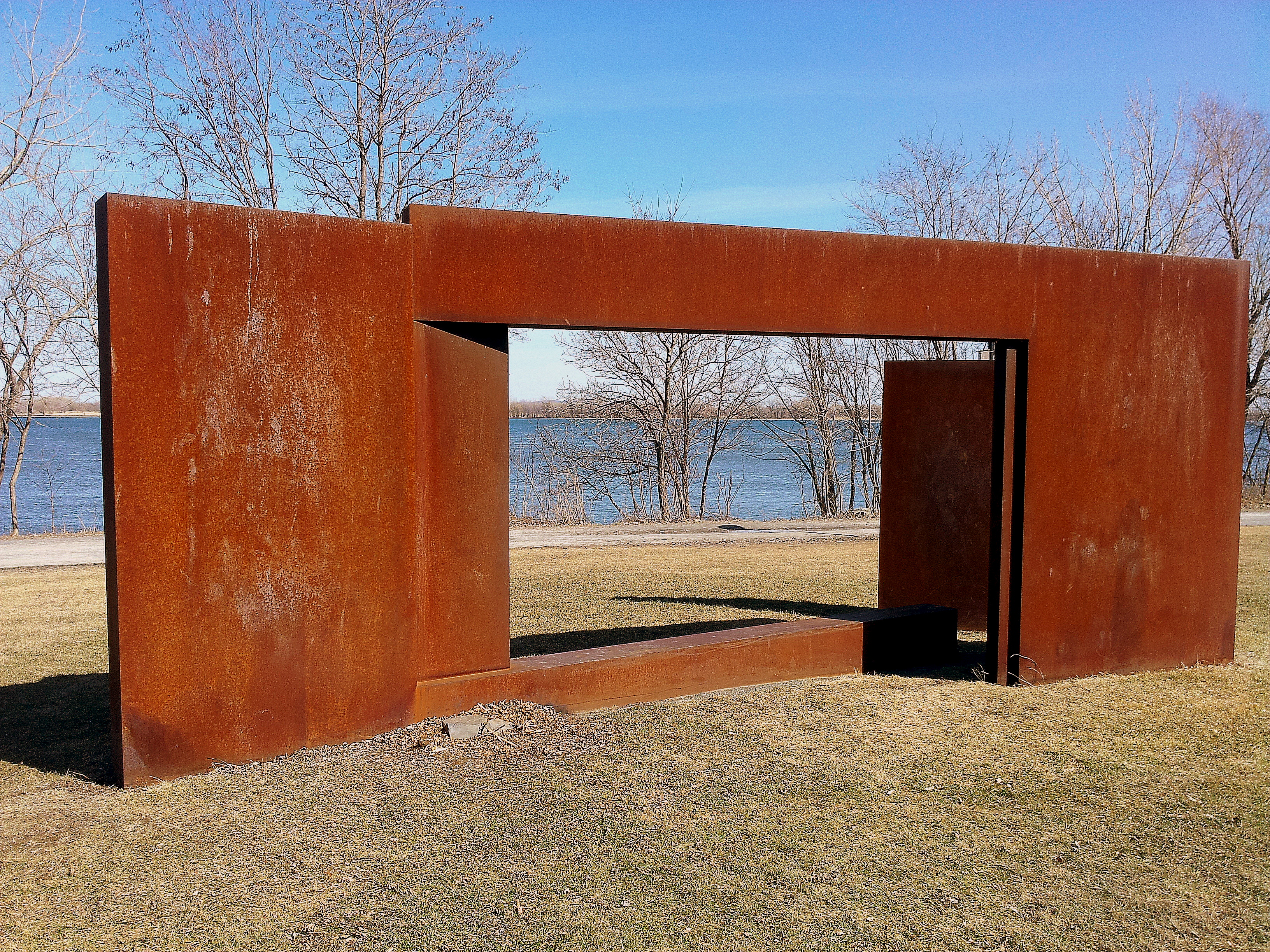 Continuum 2009 (to the memory of Pierre Perrault) by Roland Poulin. Official site